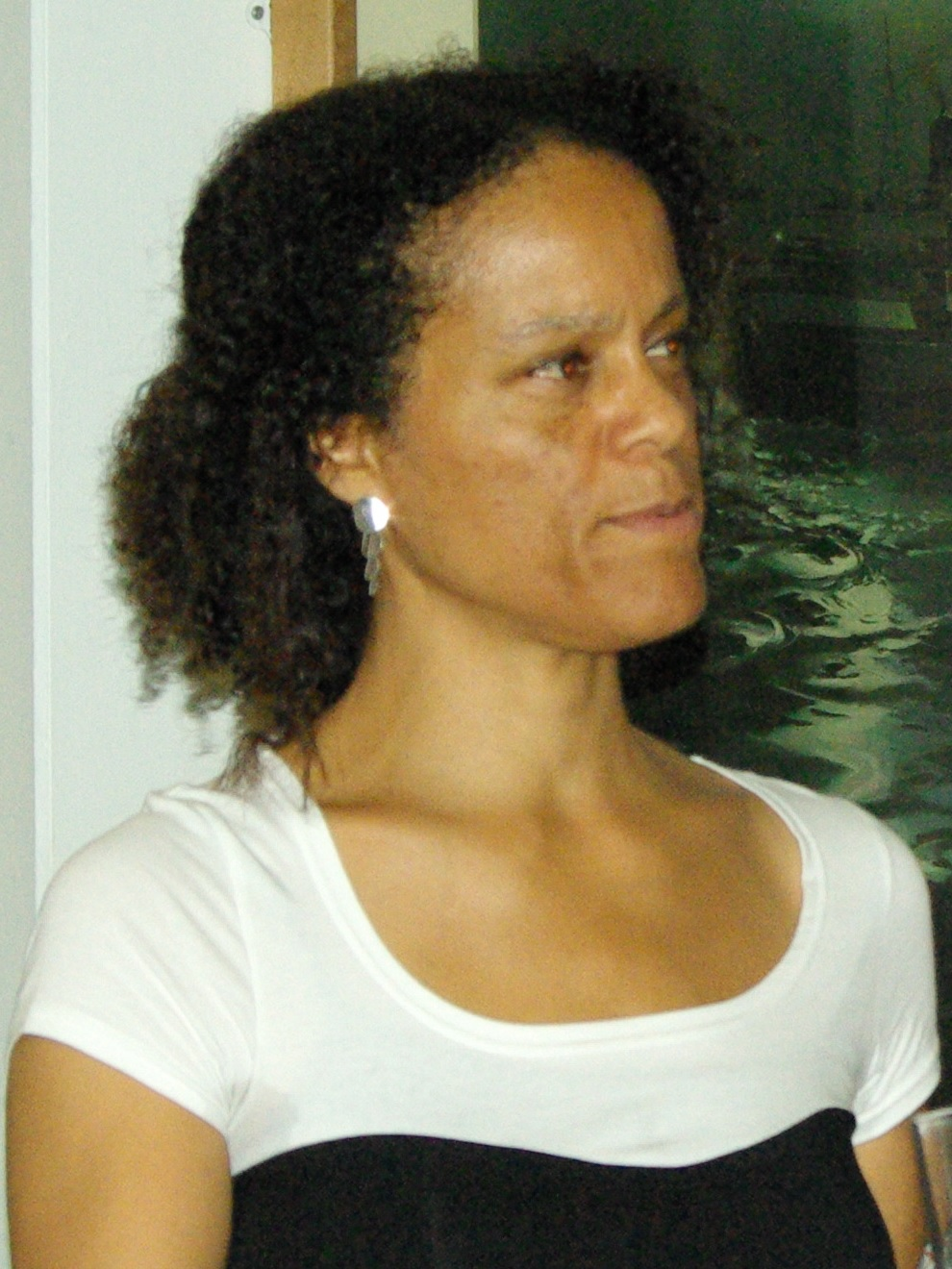 Bernardine Evaristo (author)